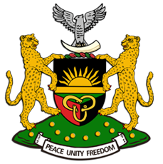 Coat of Arms of the Republic of Biafra